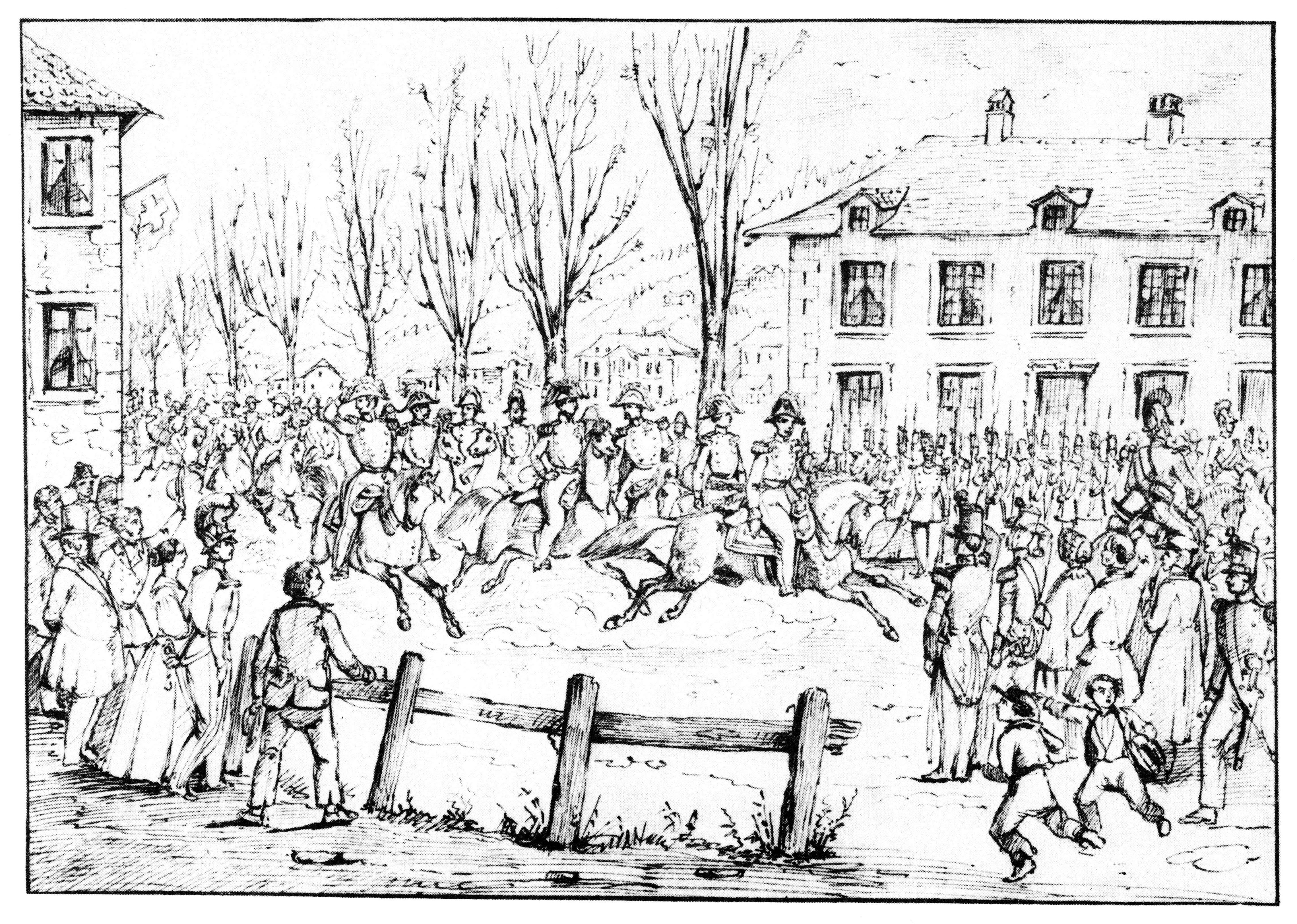 Sonderbund war 1847, Switzerland: Ink drawing by Lt. Charles-Alexandre Steinhäuslin, first company of the 19th batallion of the second brigade of the II. federal division.